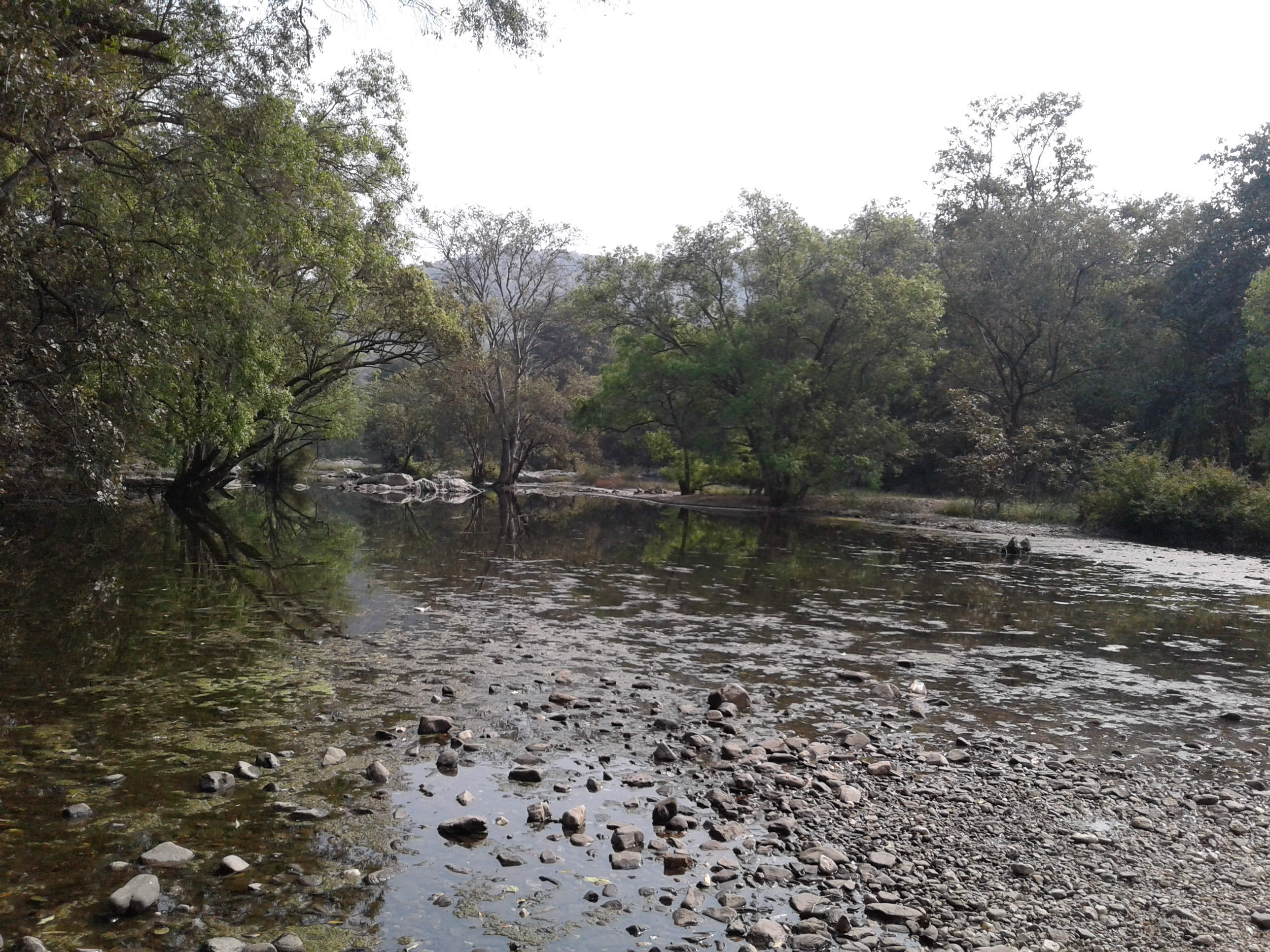 Polo forest is a beautiful forest area spread across 400 square KM located near Abhapur village in Vijaynagar taluka of Gujarat